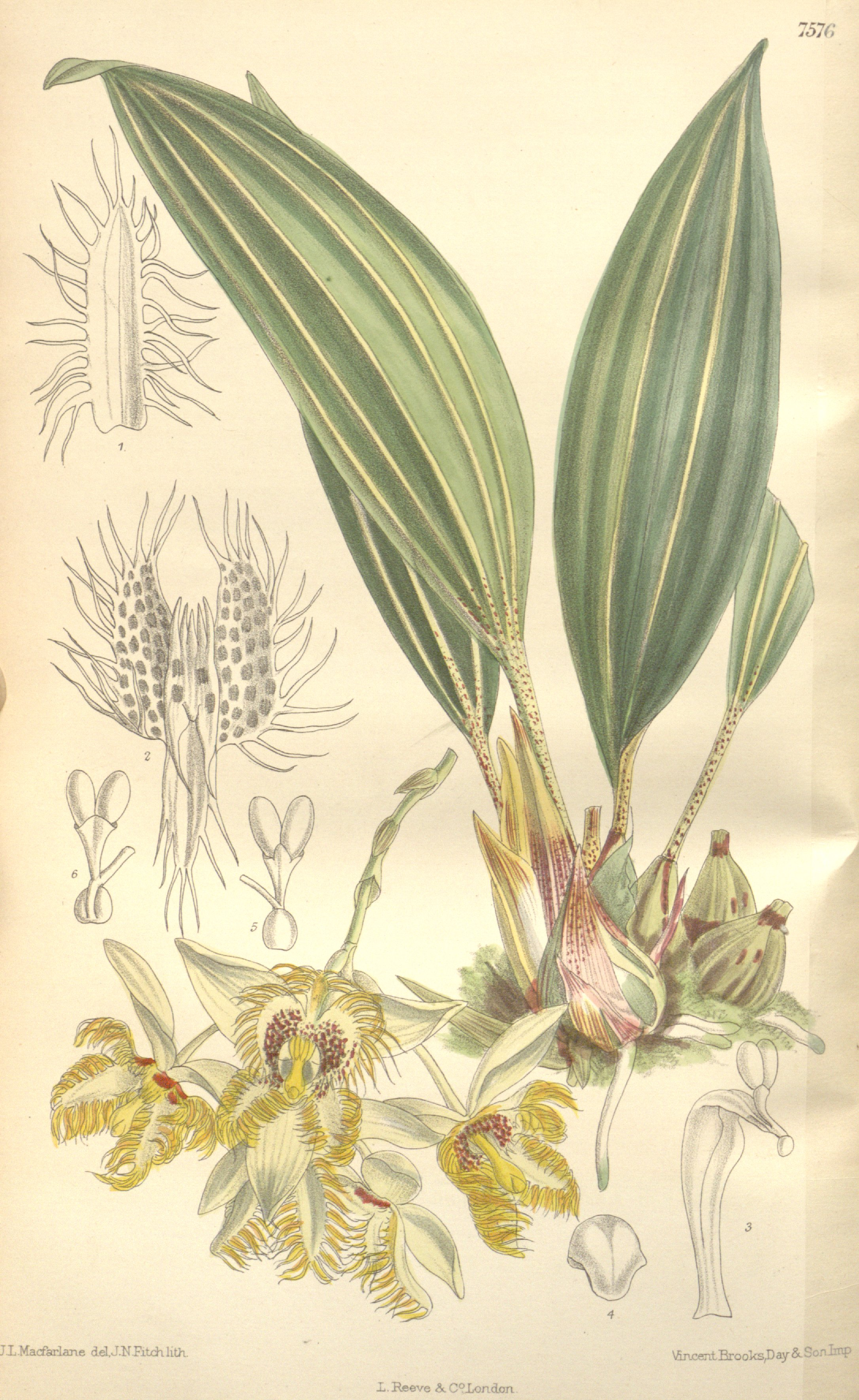 Illustration of Sievekingia reichenbachiana